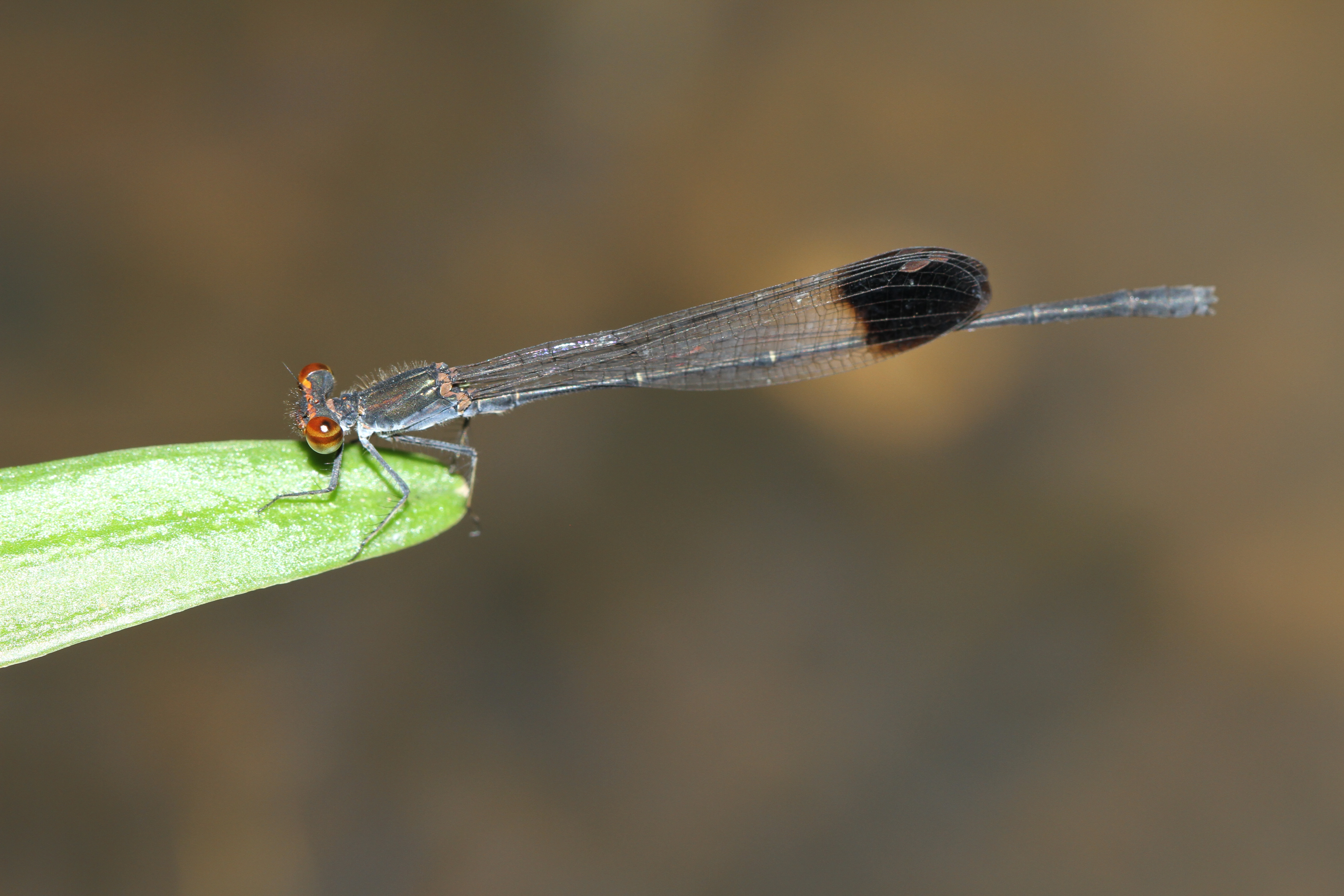 Disparoneura apicalis from india